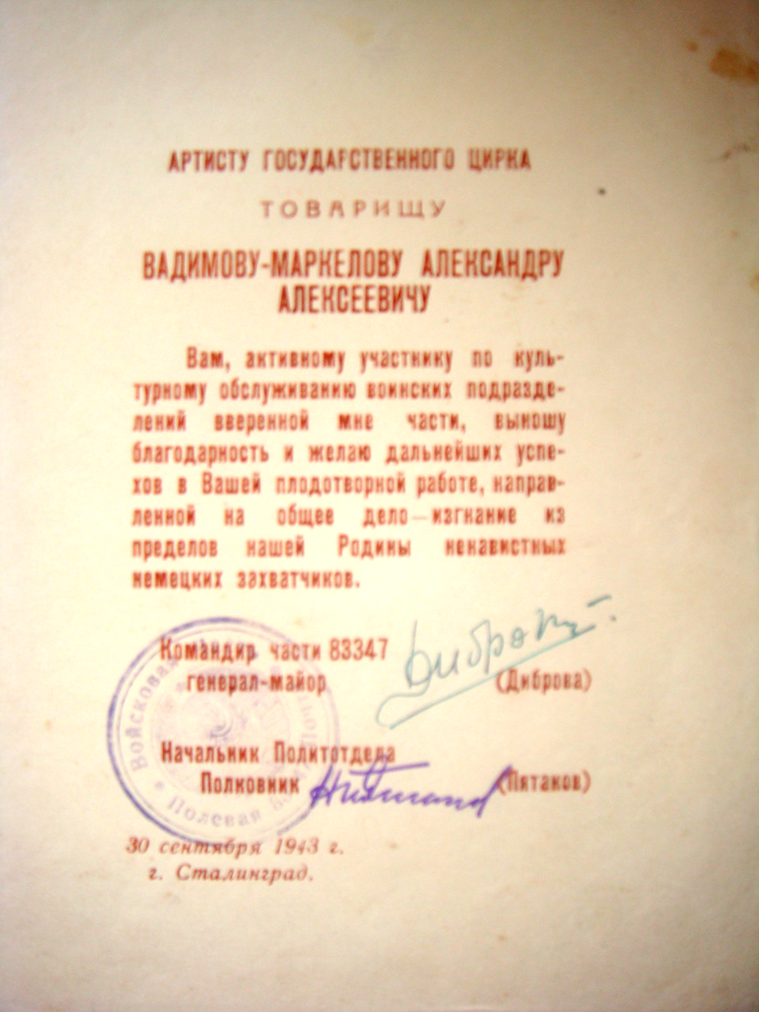 Благодарность от Сталинграда Вадимову А.А.